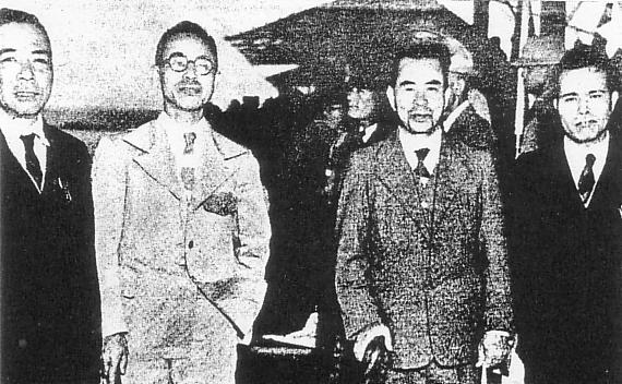 Gunto Governors